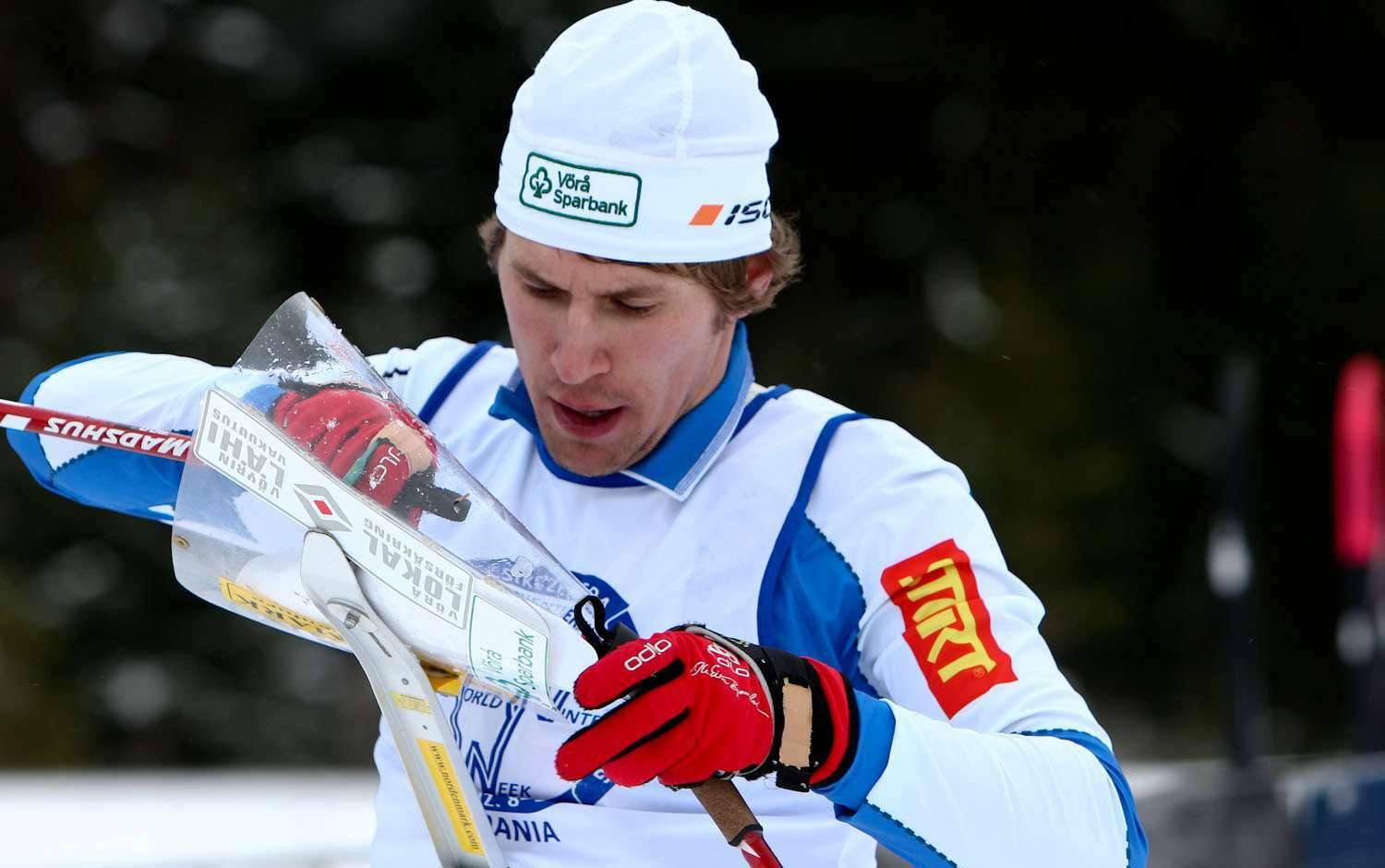 Staffan Tunis. European Ski-Orienteering Championship 2010, (8th - 15th February, 2010; Miercurea Ciuc, Romania)